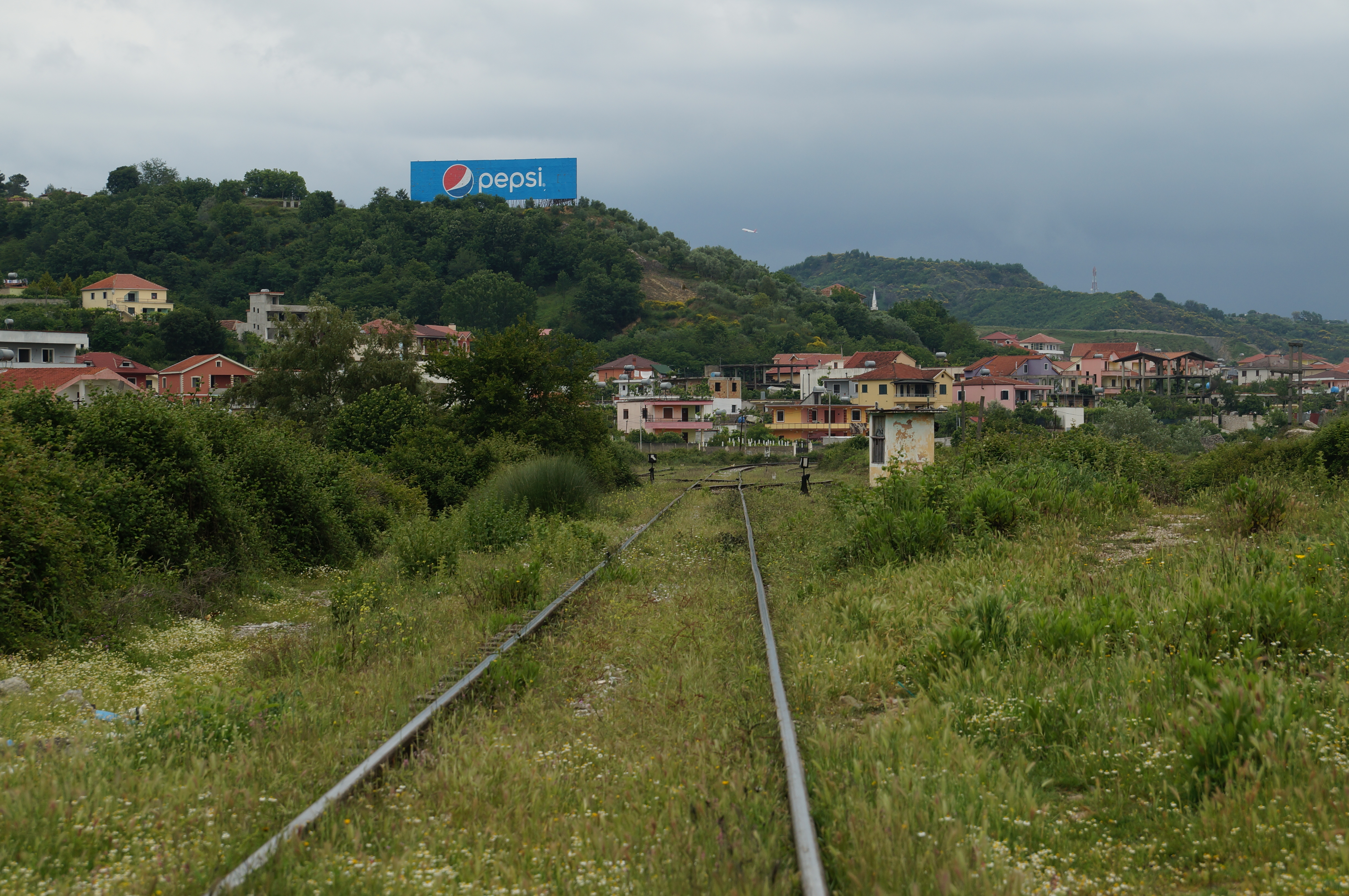 Shortly before Vora train station, Albania